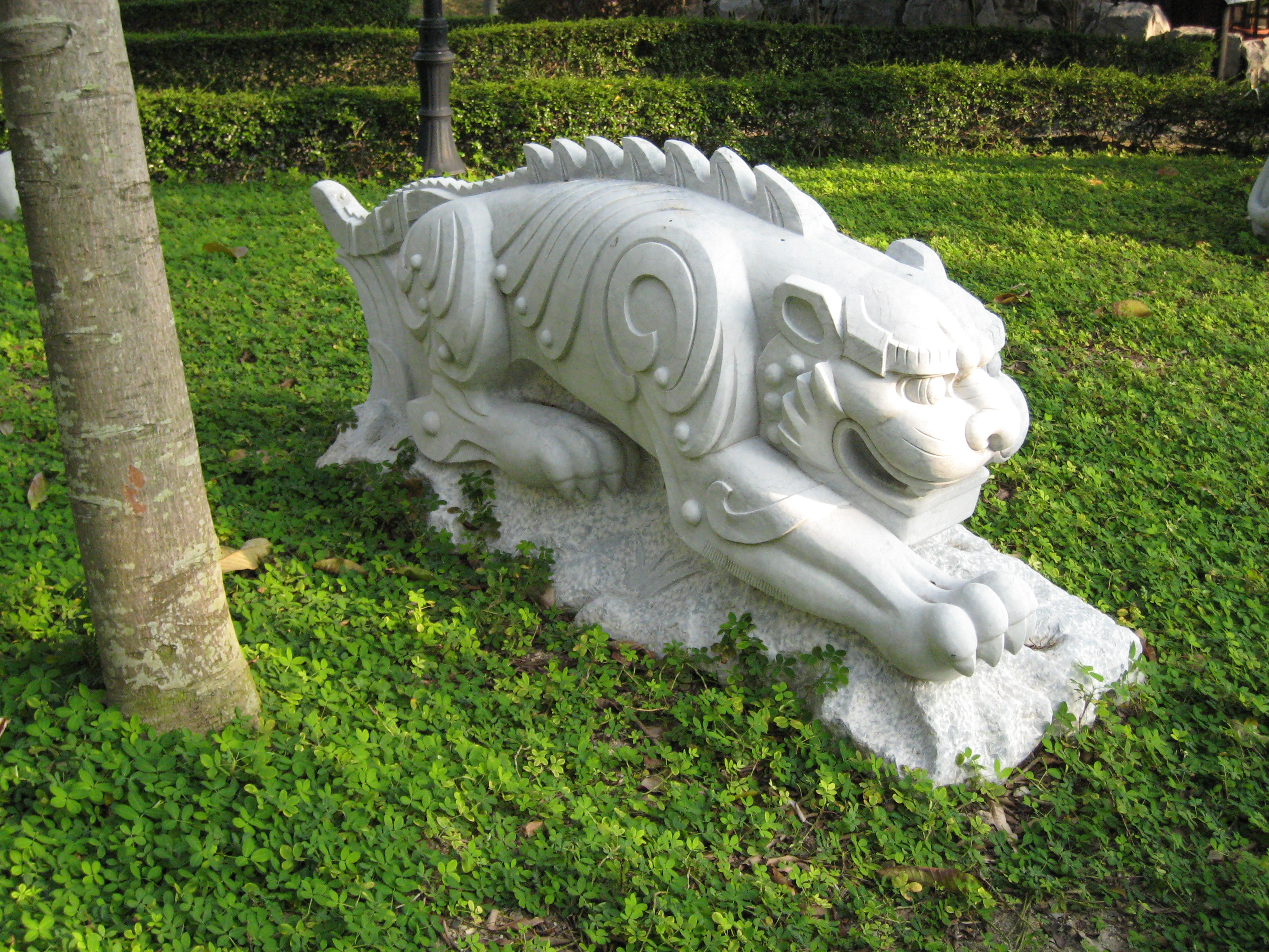 The Tiger statue is one of the 12 Chinese zodiac portrayed in the Kowloon Walled City Park in Kowloon City, Hong Kong.